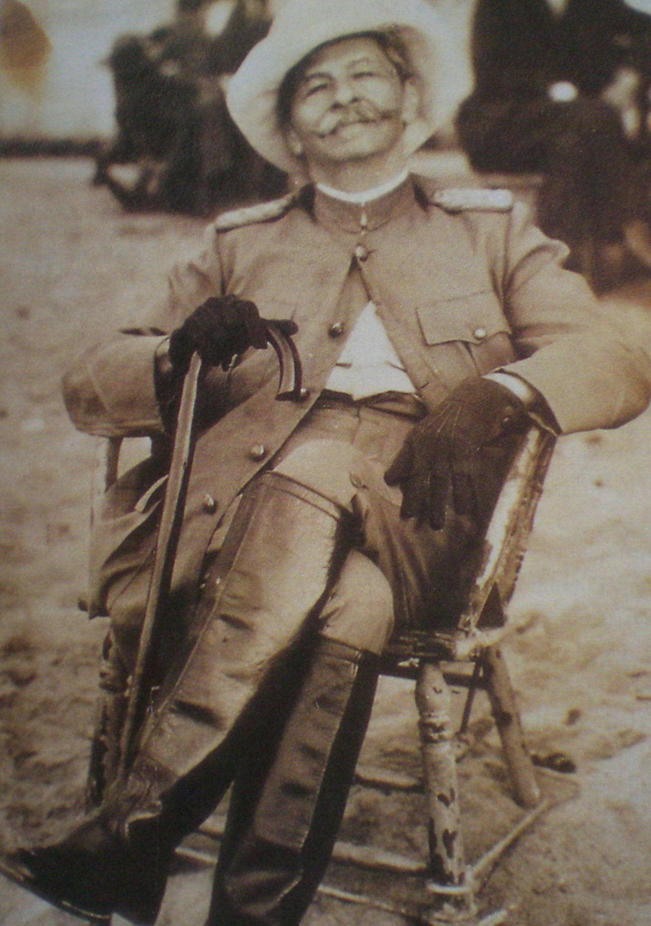 Juan Vicente during his last years.